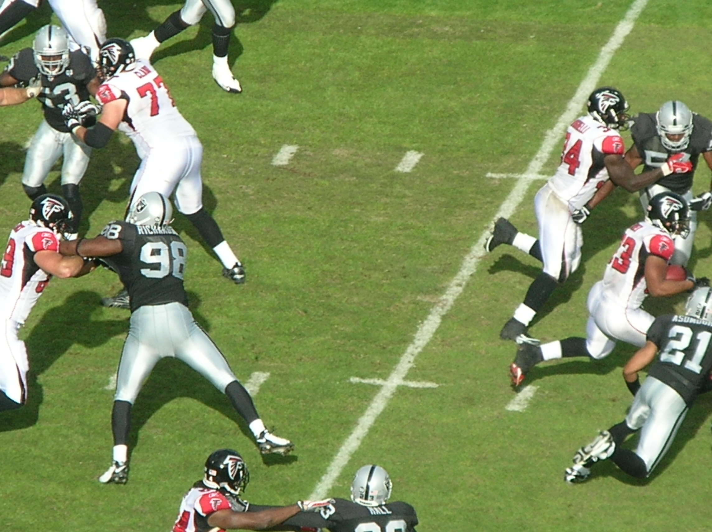 Atlanta Falcons running back Michael Turner (#33) finds a hole in the defense during a road game against the Oakland Raiders. The Falcons won 24-0.